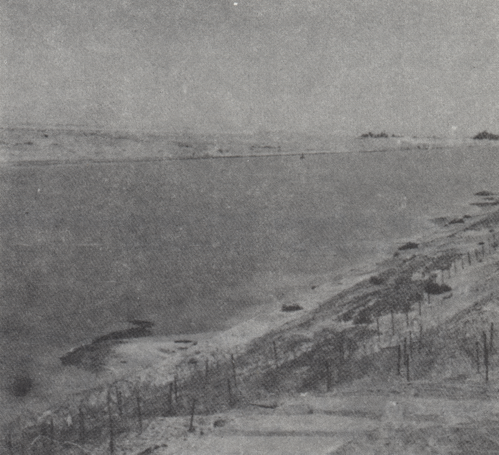 View of the Suez Canal near Ismailia, Egypt during the Arab-Israeli War. From the booklet "President Nixon and the Role of Intelligence in the 1973 Arab-Israeli War." For more information, visit